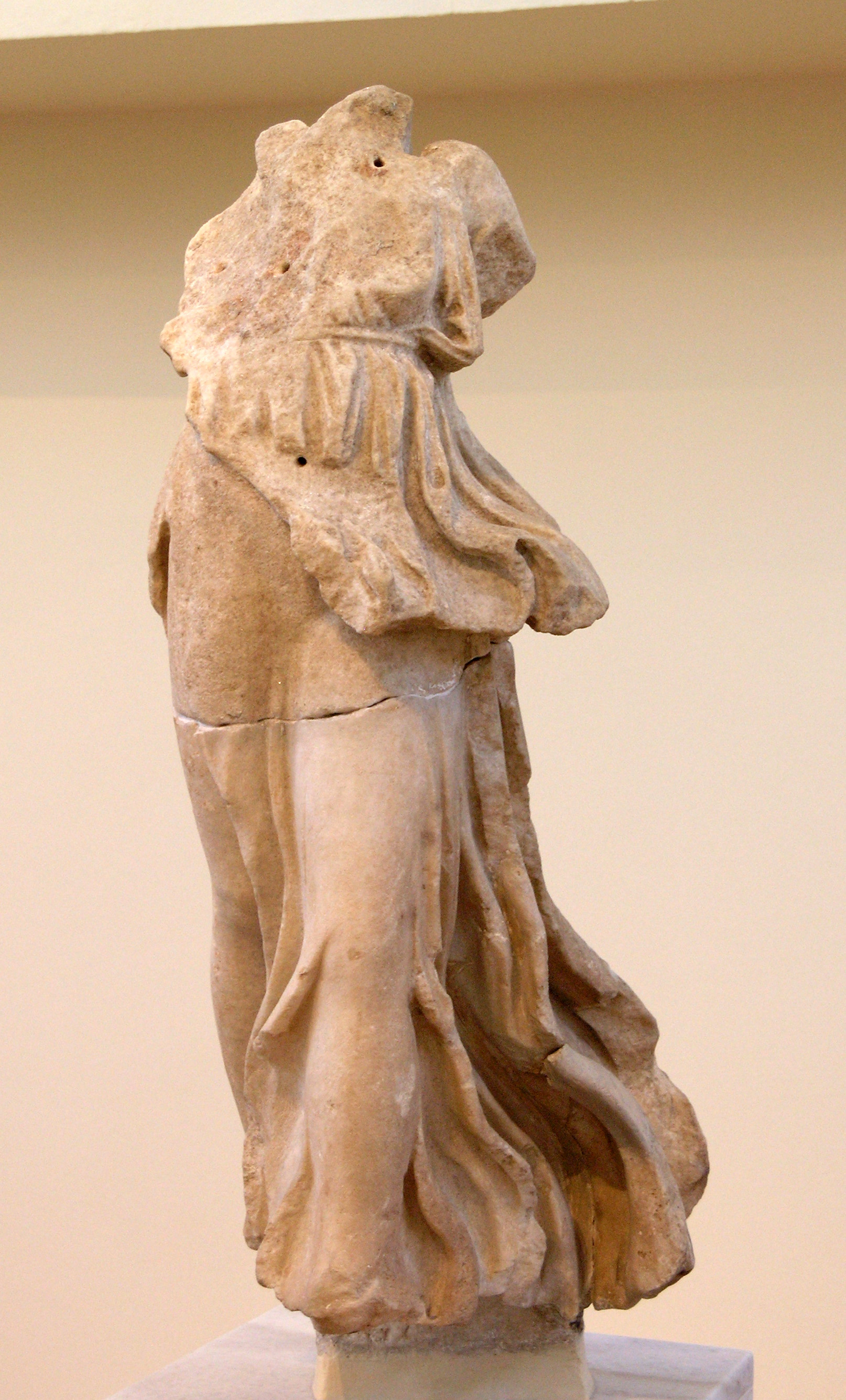 Statuette of Nike. Parian marble. Found at Epidauros. The figur was the right akroterion on the west pediment of the temple of Artemis. Nike flies forward advancing her left leg. The wings were made of a separate piece of marble and set in the sockets preserverd in the shoulders of the figure. Late 4th c. BC.